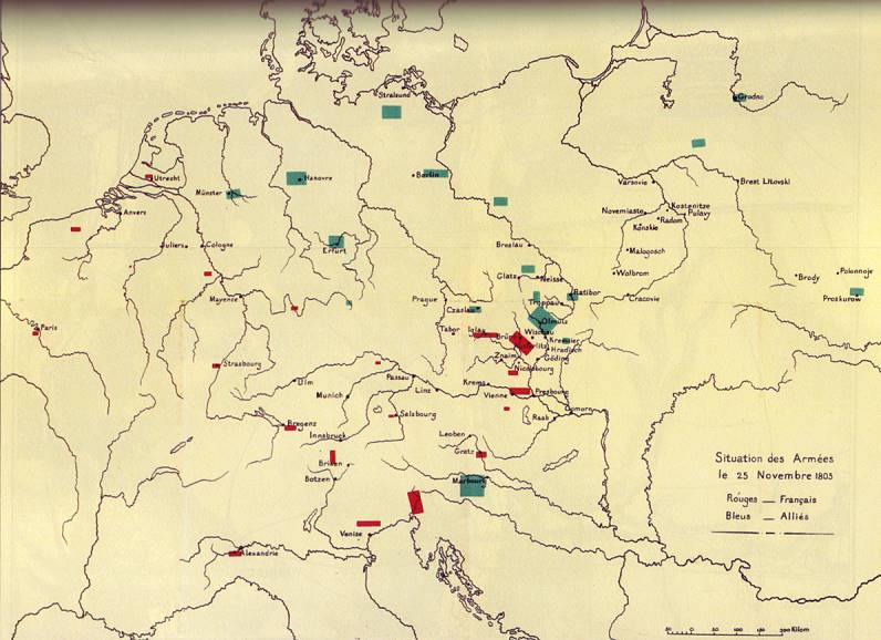 Map showing the troop movements to Austerlitz after the Battle of Duerenstein. This map was published in: Colin, Alombert-Goget; La Campagne de 1805 en Allemagne Paris 1902–08 (Nachdruck Paris 2002).